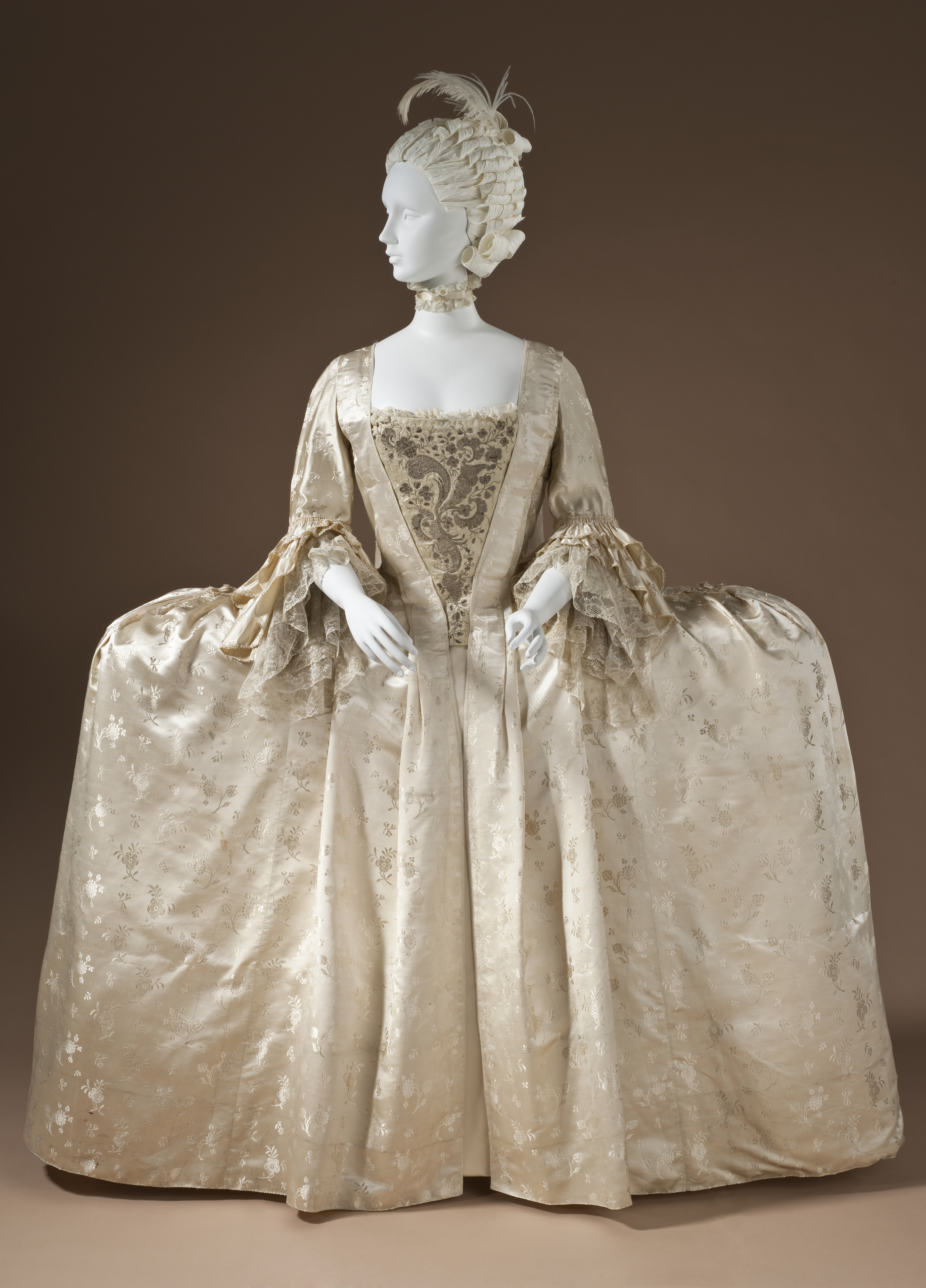 Woman’s robe à la française, England, circa 1765. Silk satin with weft-float patterning and silk passementerie.